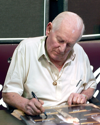 Guitar amplifier pioneer Jim Marshall signing autographs at the 2007 Winter NAMM Show in Anaheim, California